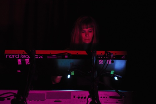 Amanda Kramer (of Psychedelic Furs) - Live in Concert (photo by Scott Dudelson)